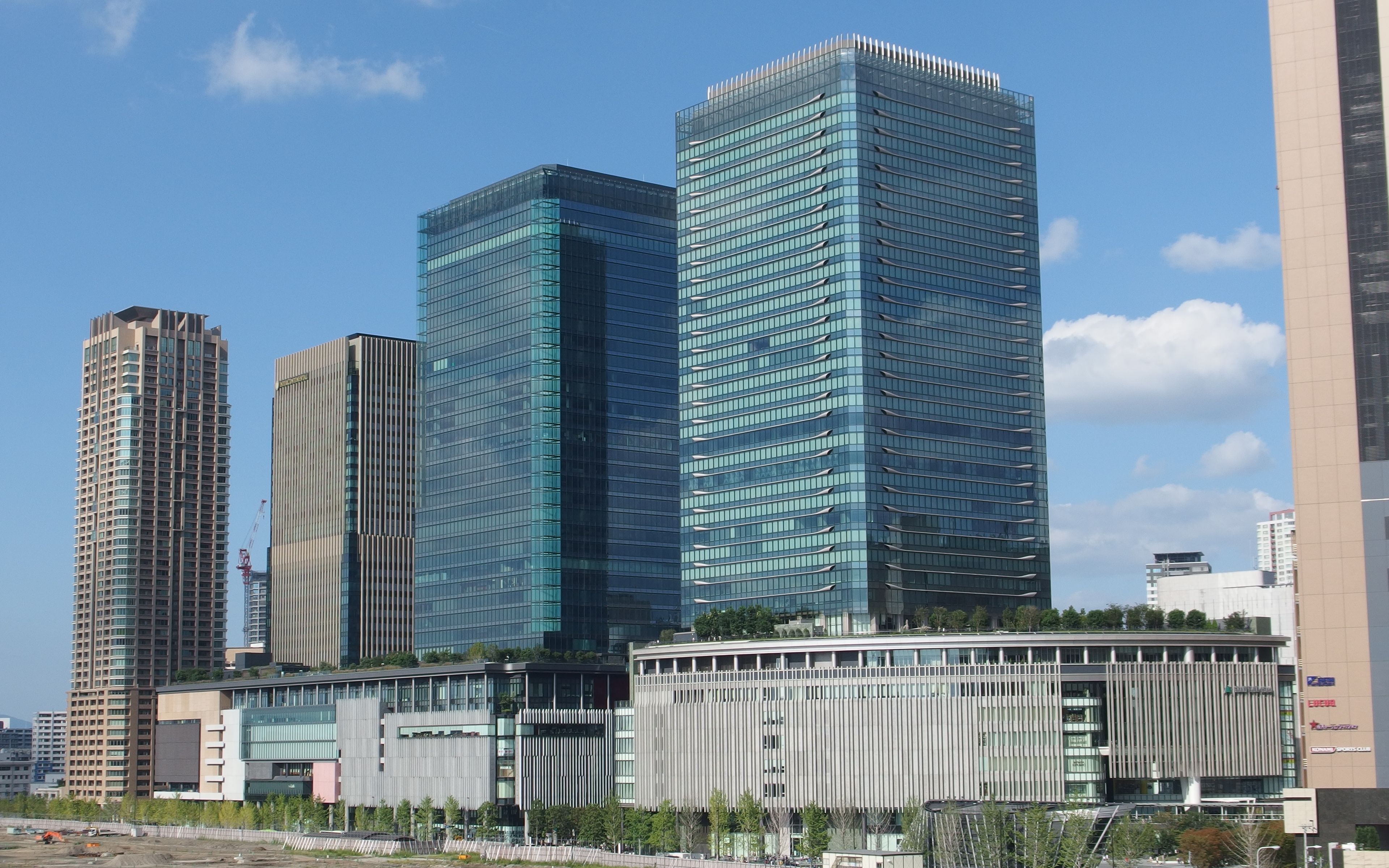 Grand Front Osaka, Osaka, Osaka Prefecture, Japan